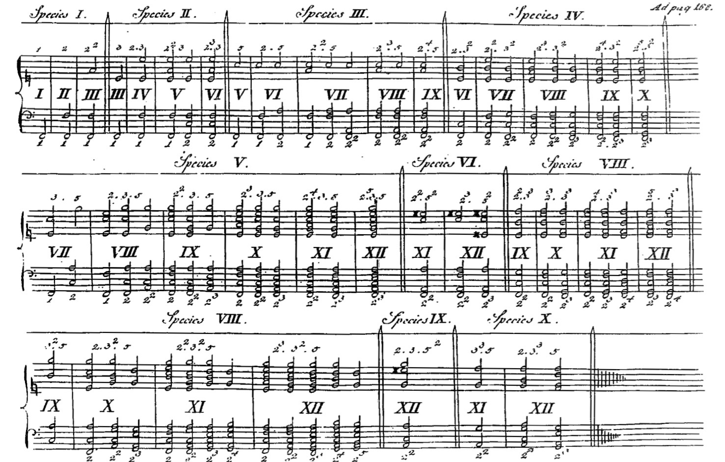 Euler’s musical illustration of the first ten species of harmony, according to his degrees of agreeableness.